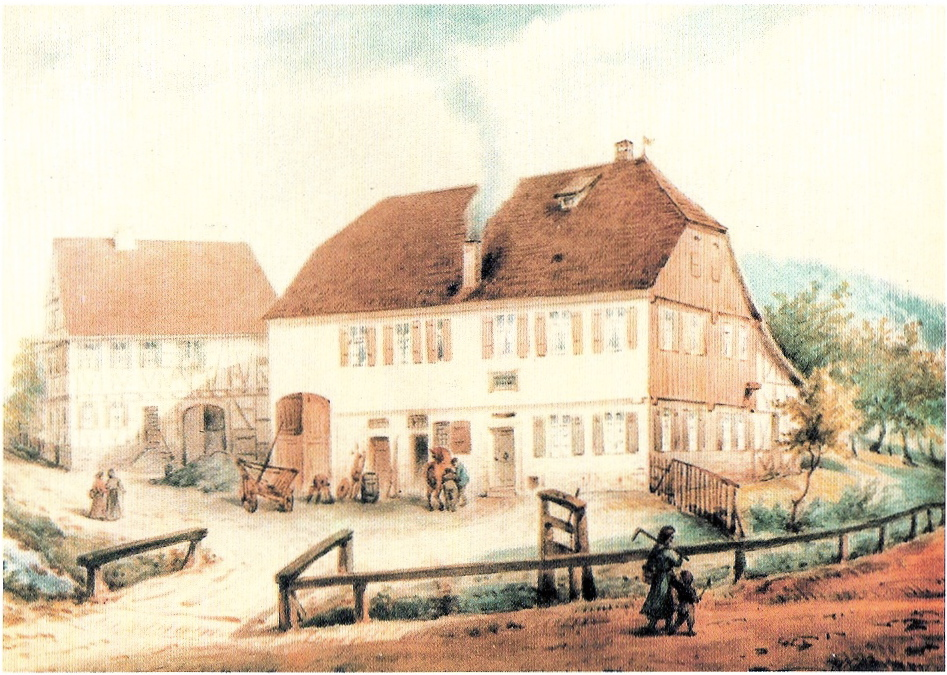 The house known as Schillerhaus (Schiller house) in Lorch (Württemberg), watercolour painting by Wilhelm Pilgram, ca. 1876